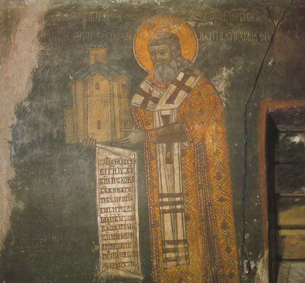 Fresco of Patriarch Makarije in Budisavci monastery